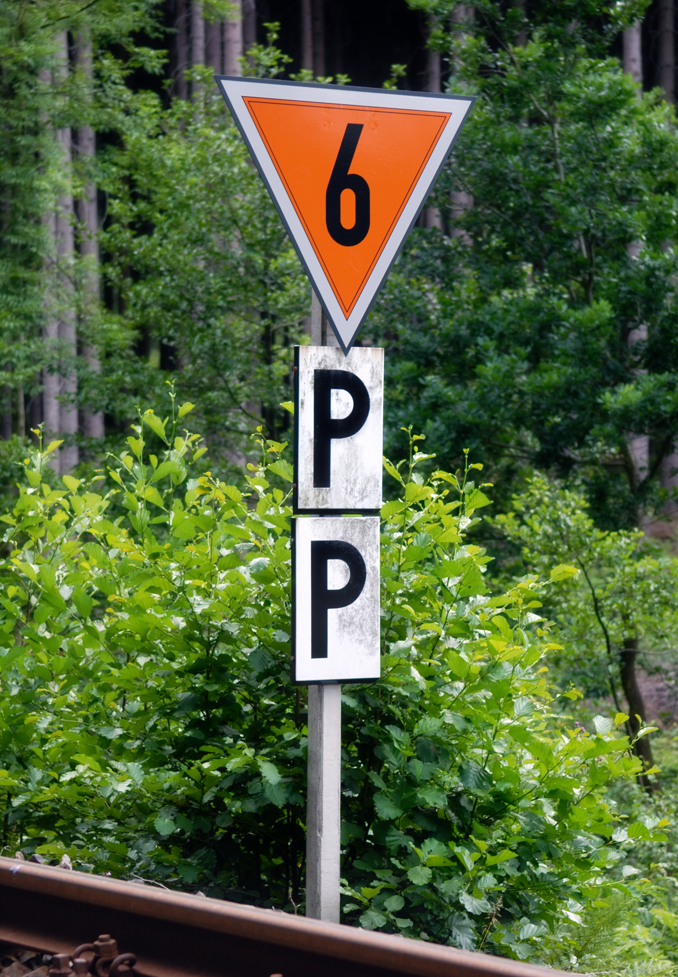 This image shows a sign-board for a slow zone of the German Bundesbahn.